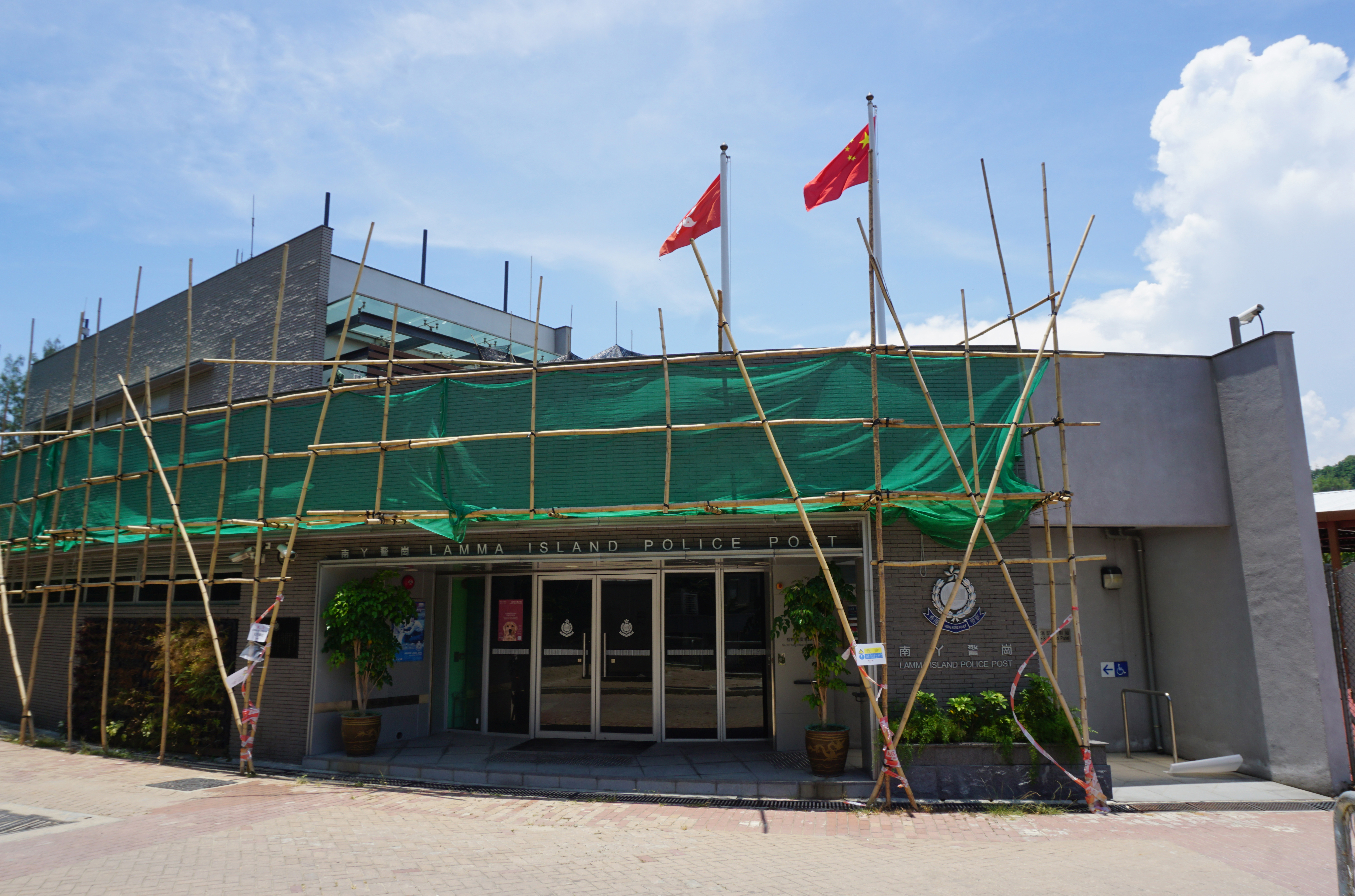 Police Post in Lamma Island, Hong Kong.